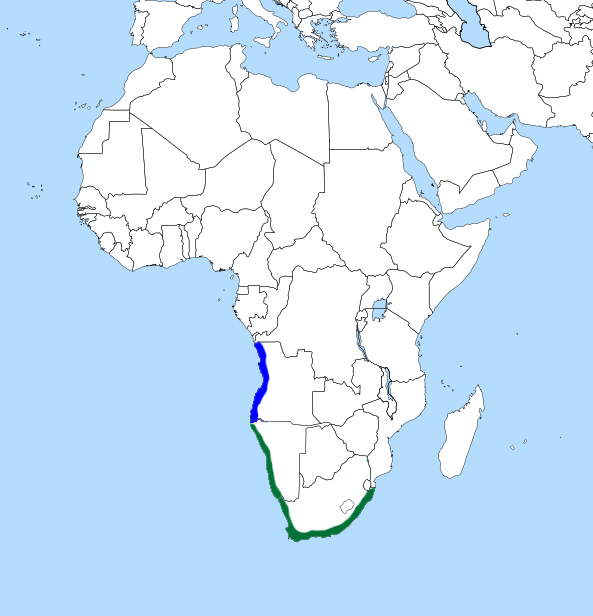 Range of Phalacrocorax capensis